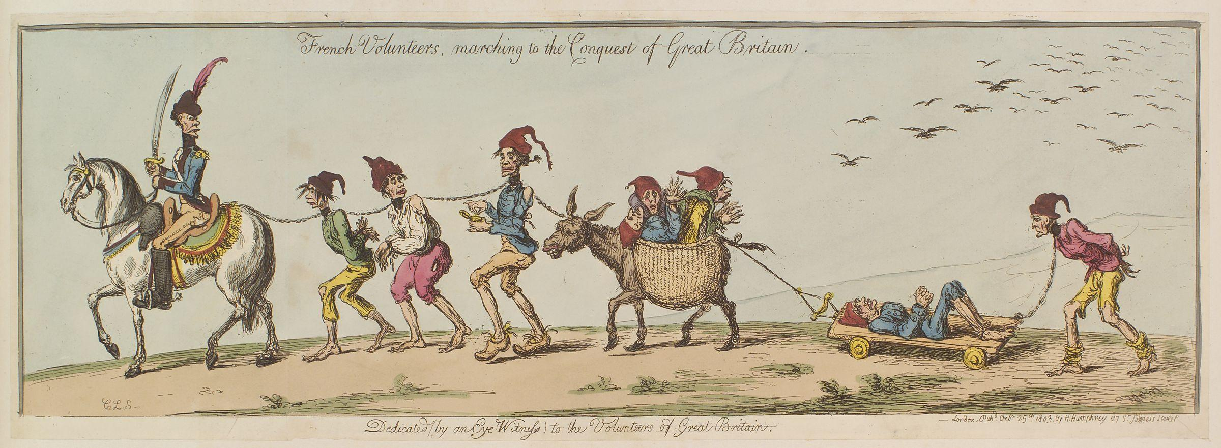 French volunteers marching to the conquest of Great Britain, by James Gillray (died 1815), published 1803. All images in this batch have been confirmed as author died before 1939 according to the official death date listed by the NPG.